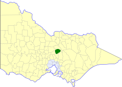 Location of the Shire of Seymour within Victoria.